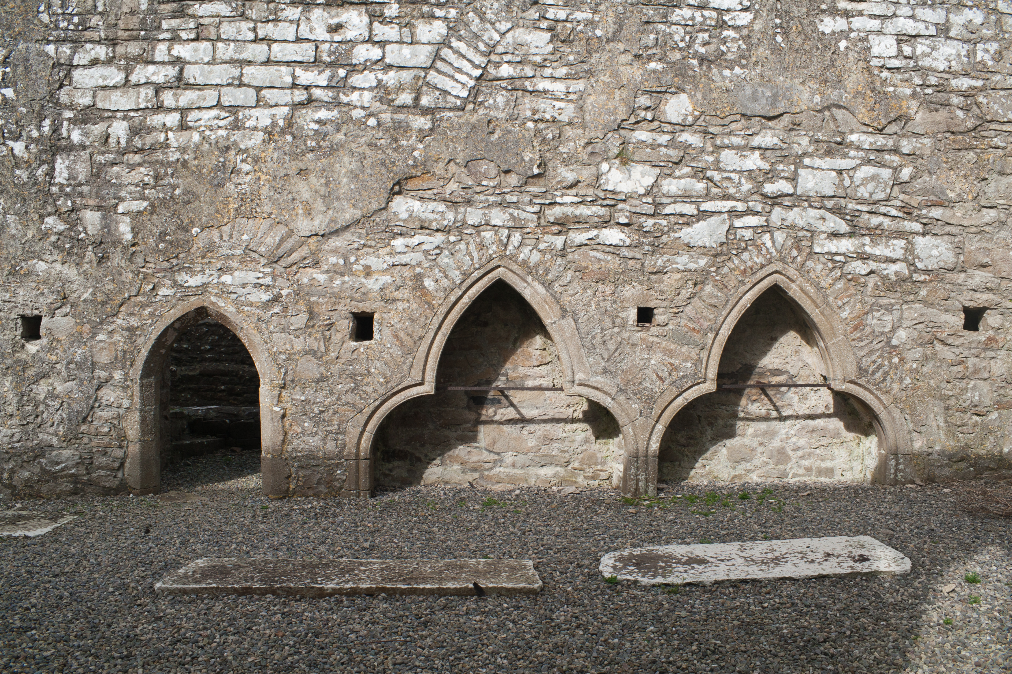 Two tomb niches and a doorway in the north wall of the choir.